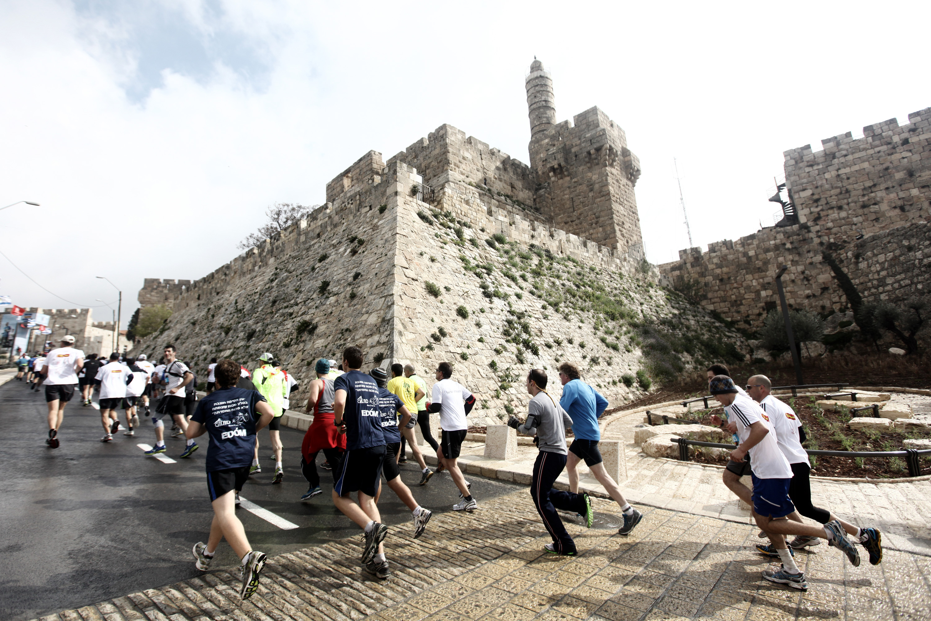 Photo by Kobi Gideon / Flash90 Jerusalem